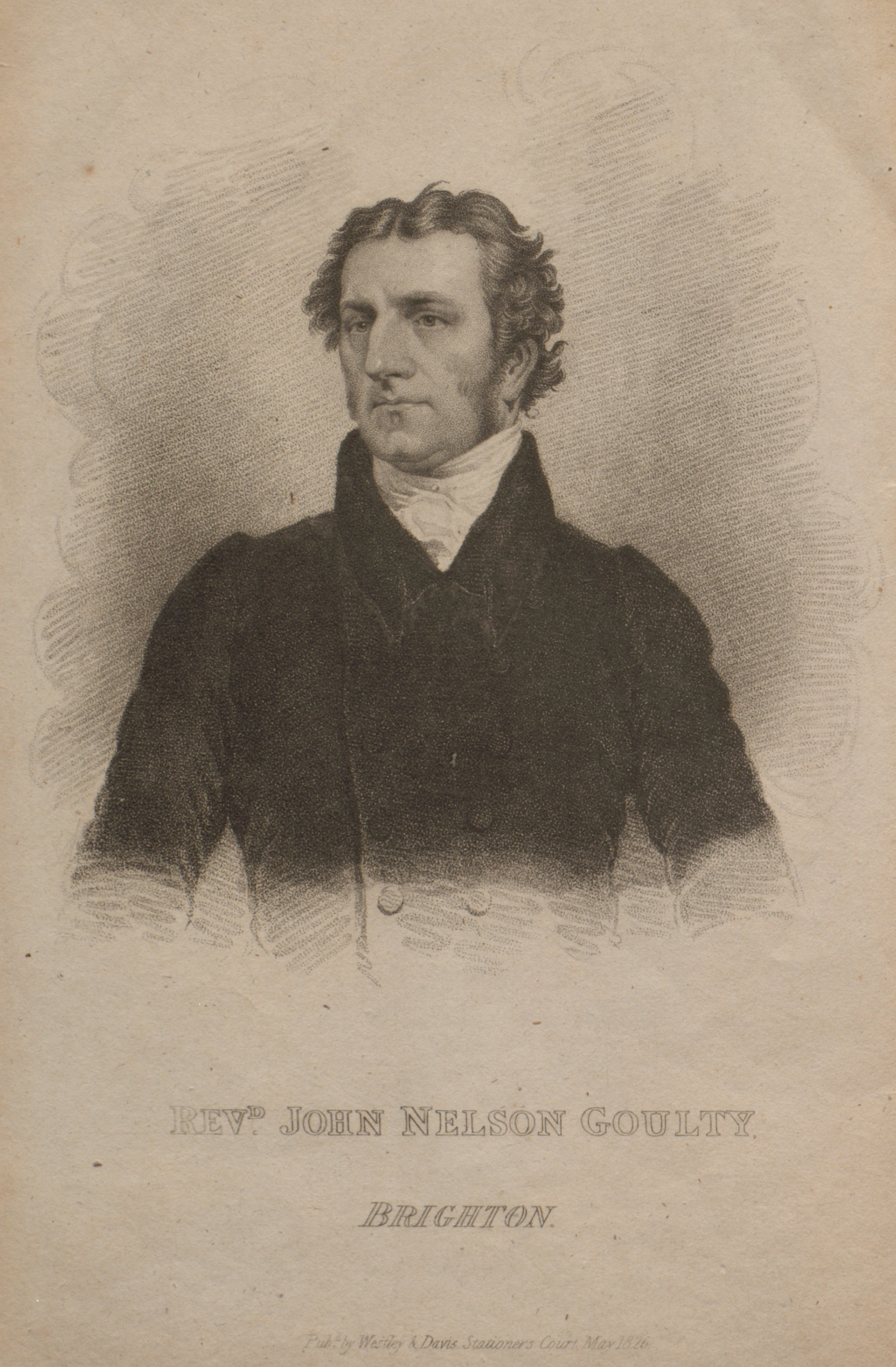 Print of engraving of the Reverend John Nelson Goulty c.1830 from Brighton. Accompanying text states "Revd. John Nelson Goulty, Brighton" and in small text "Pubd by Westley & Davis, Stationers Court, May 1826". Father of Horatio Nelson Goulty.